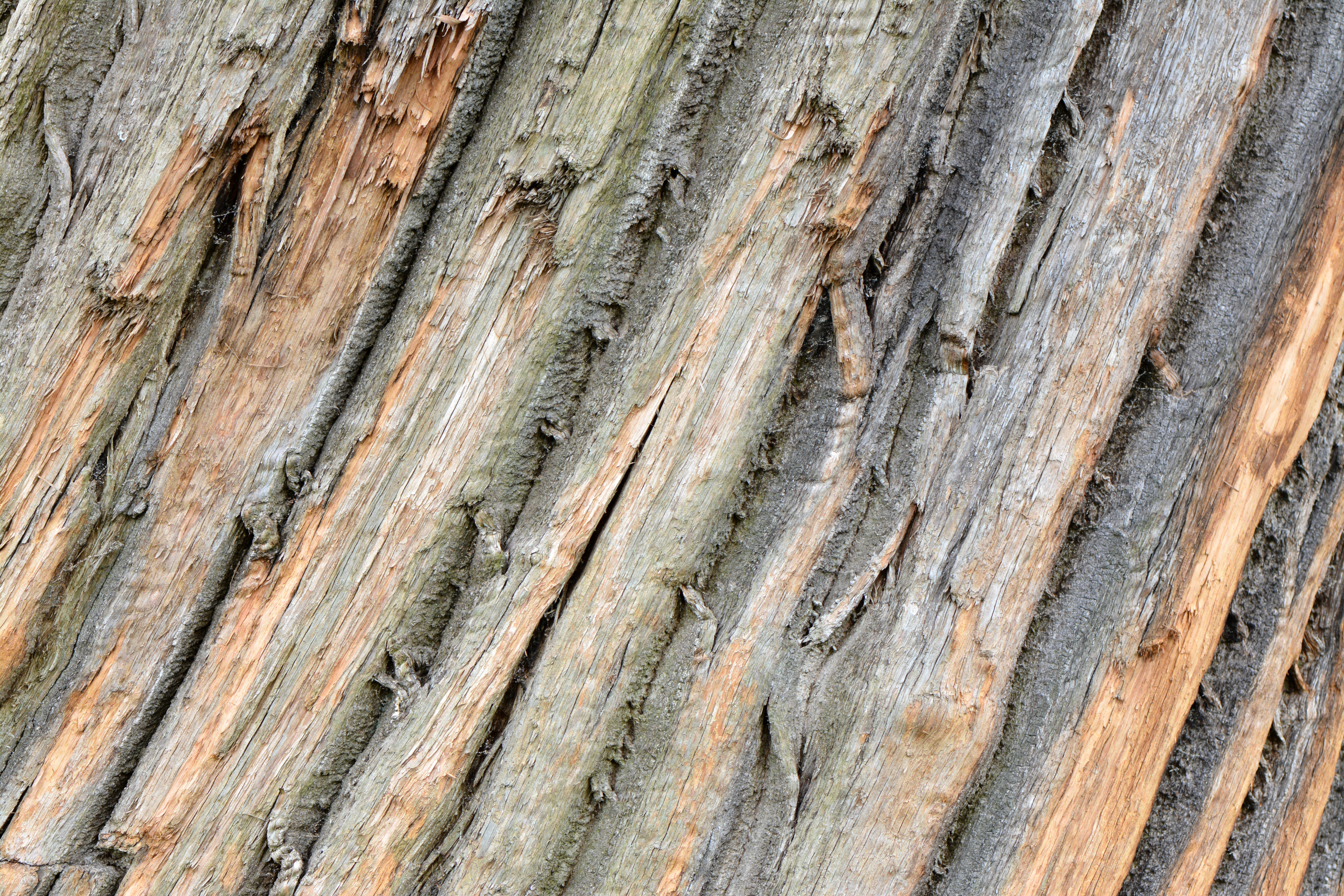 Wooded landscape of Burghley House park or its periphery. Some of the oaks in the park are declining. A means of control tested is the spreading of mulch at the foot of these trees. These landscapes are free to the public during the day.